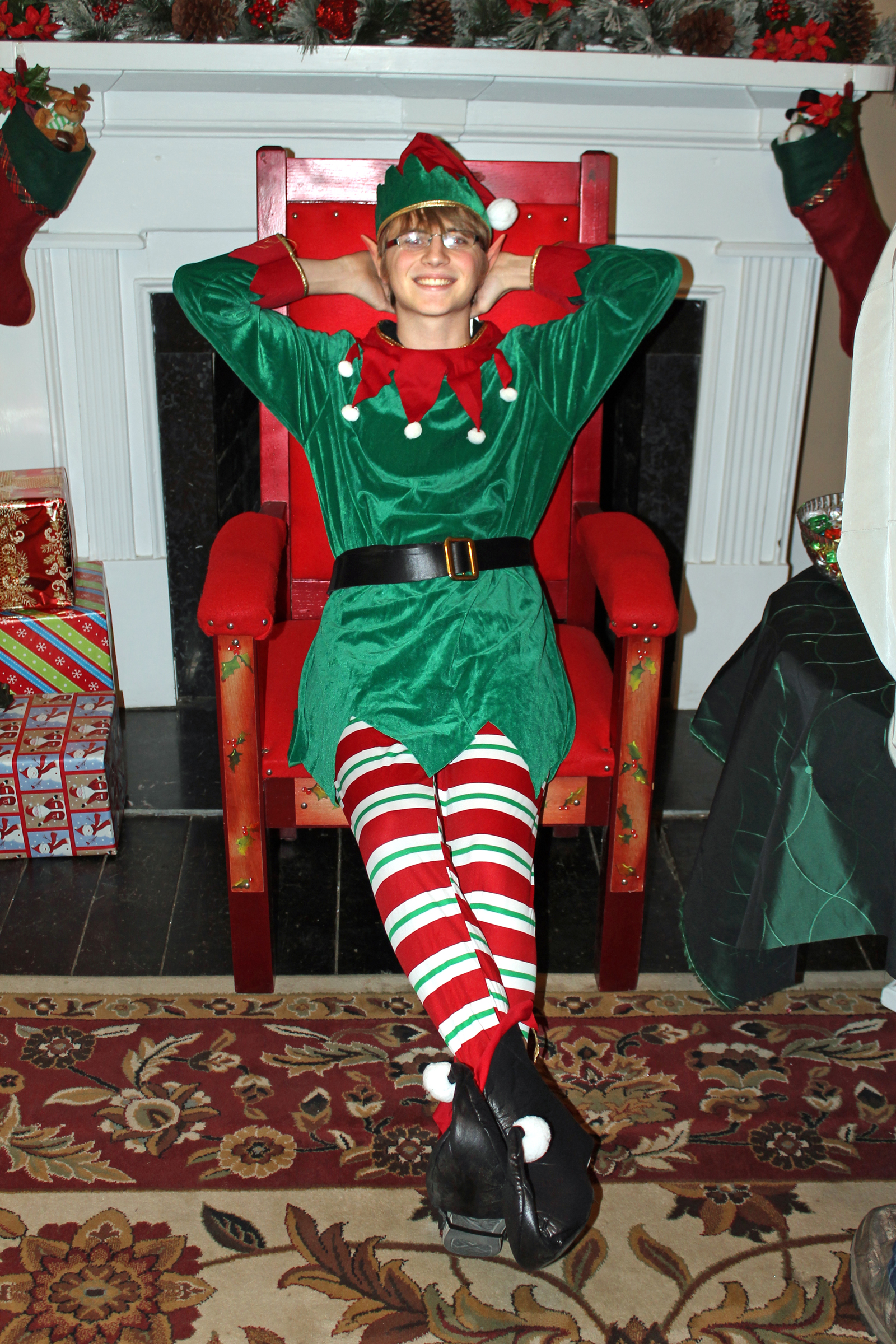 Scenes from Wilderness Road State Park's 2016 ChristmasFest event which featured more than 40 uniquely decorated trees and wreaths, holiday music, refreshments, Santa & Mrs. Claus, Tickety Tok the Elf and the Grinch.